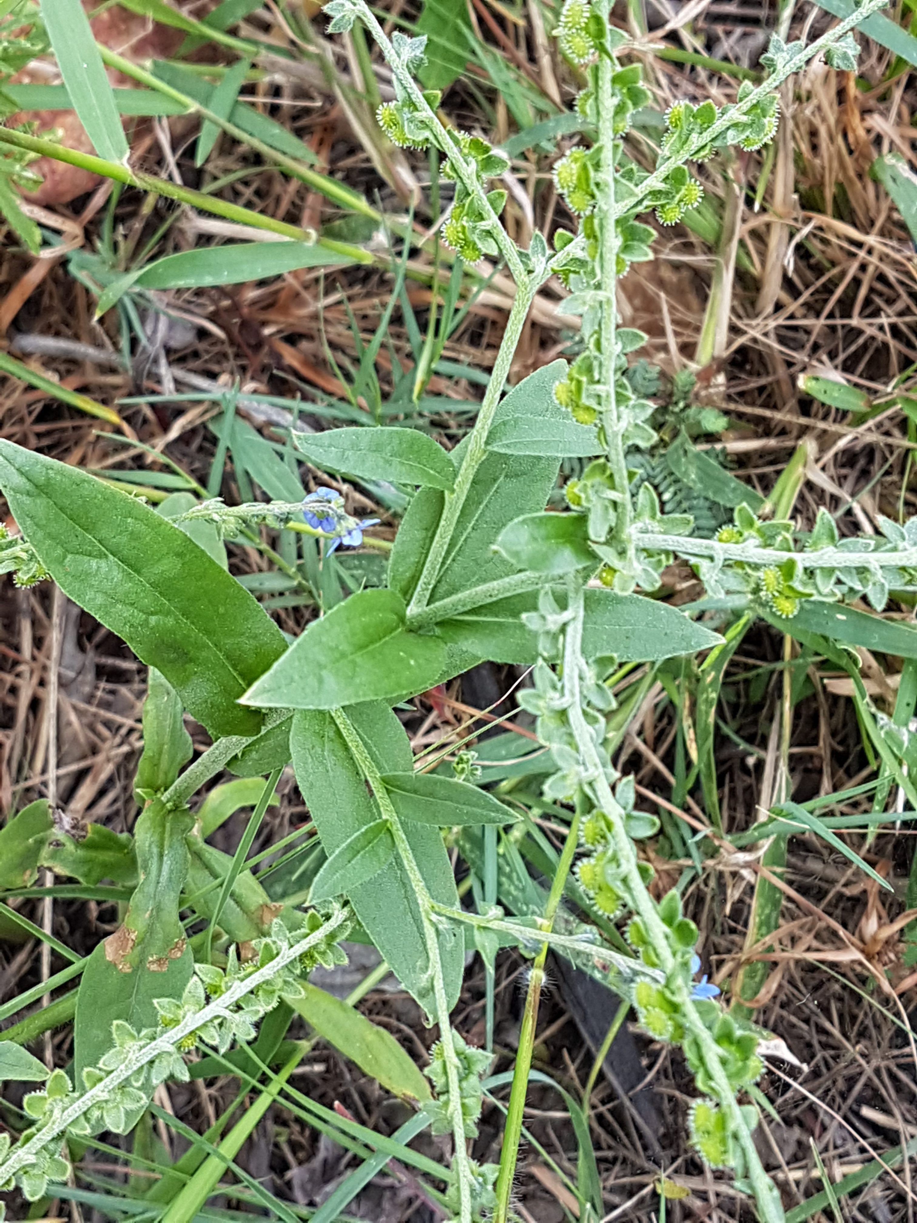 Cynoglossum lanceolatum Forssk. - leaves and fruits - Honeydew area, Gauteng, South Africa